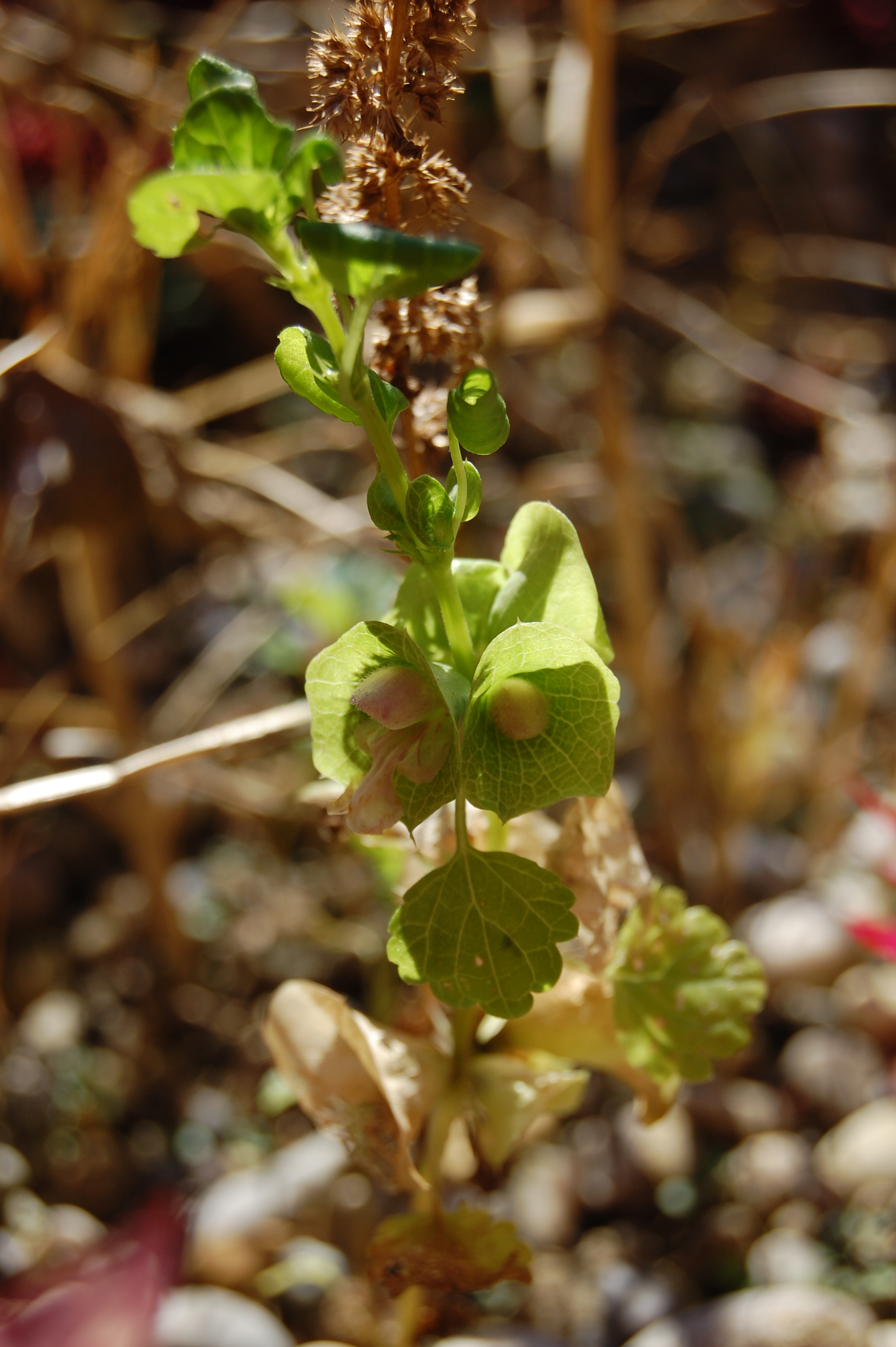 Moluccella laevis with flower